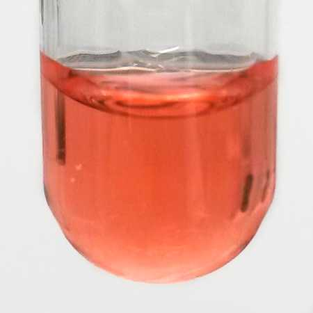 Water solution of pure aluminon (C22H23N3O9).